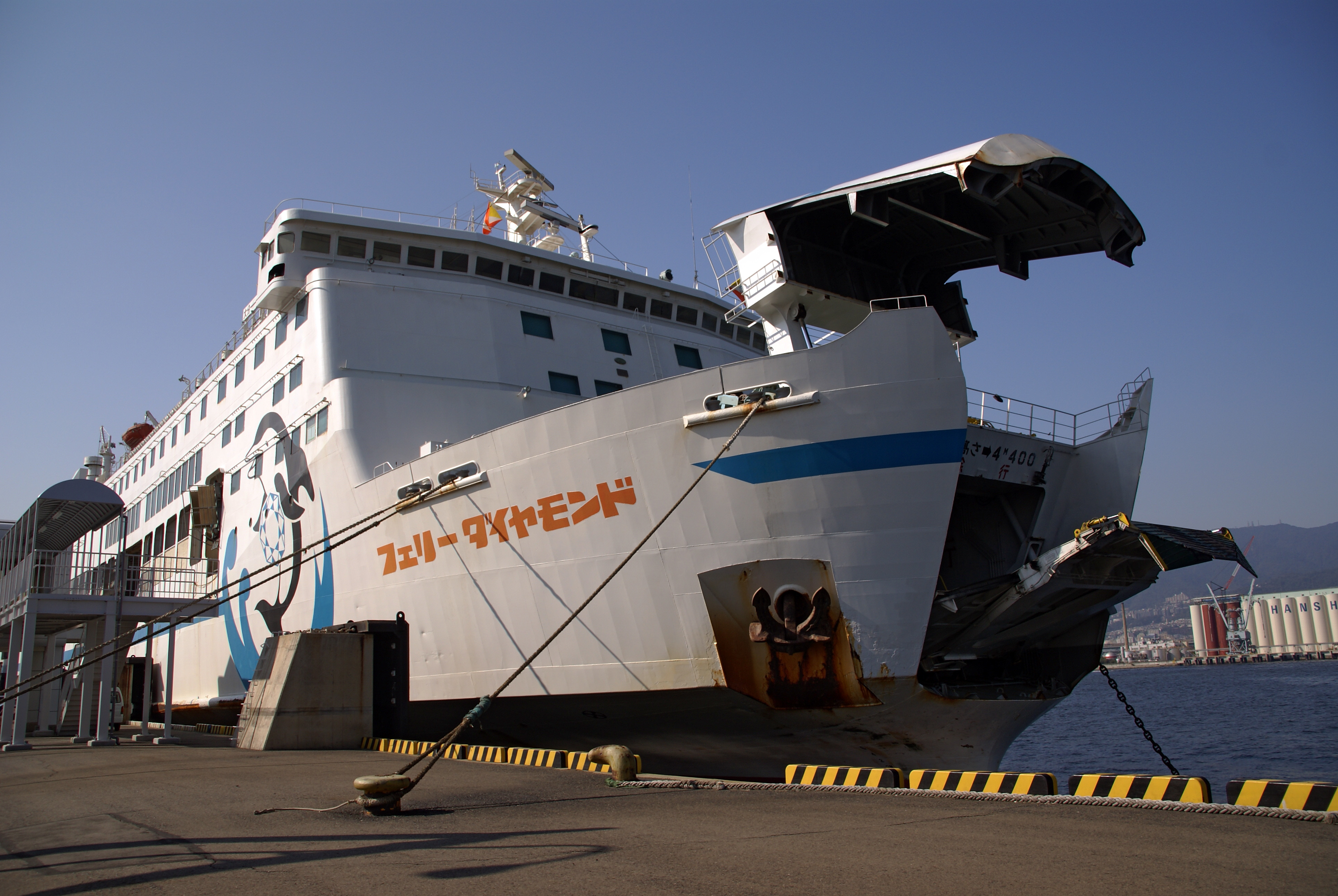 "Ferry Diamond" at Rokko Island Ferry Terminal of the Kobe harbor ( Kobe, Hyogo, Japan )